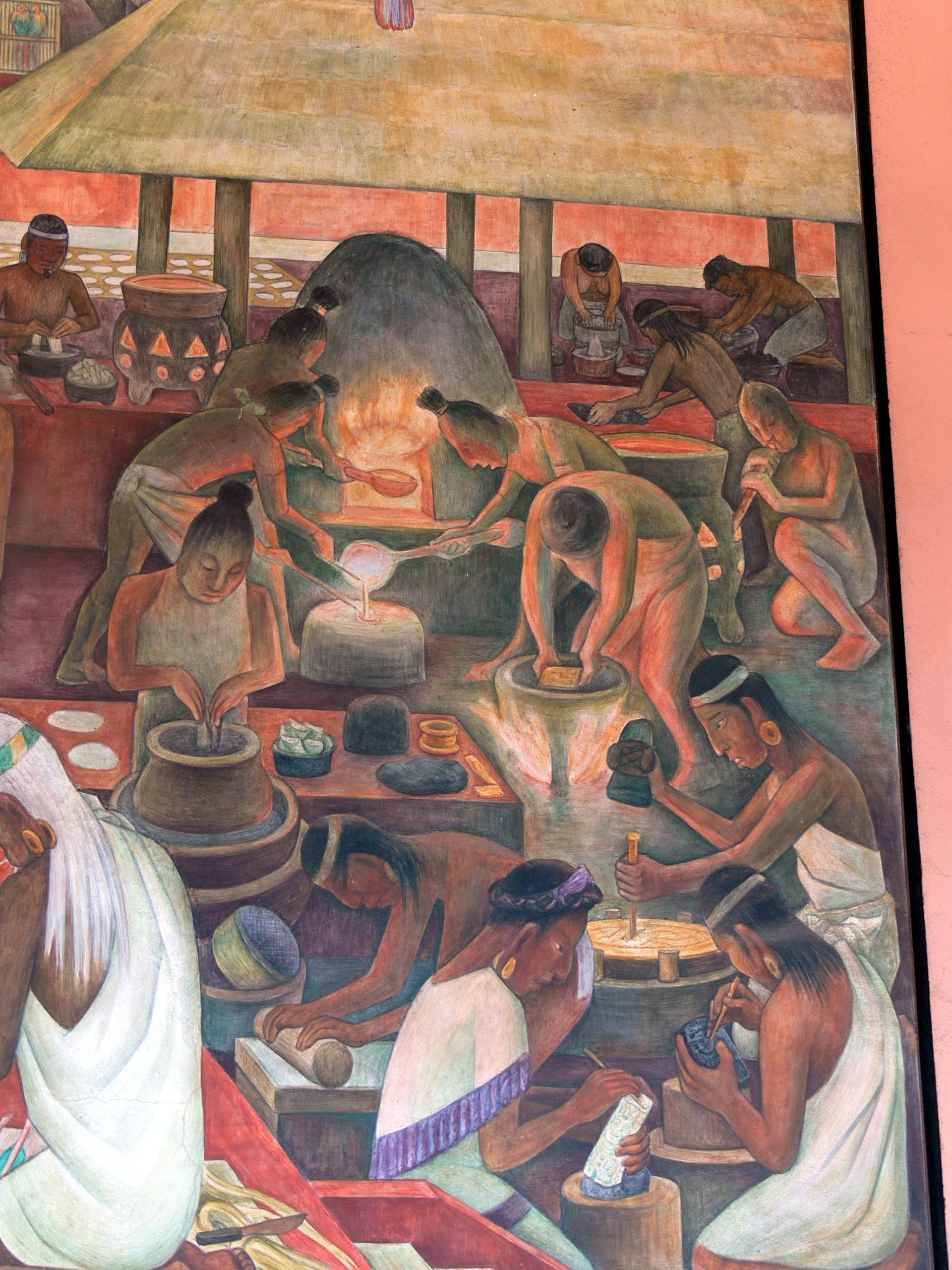 Mexico City - Palacio Nacional. Mural by Diego Rivera showing the life in Aztec times e.g. production of gold.